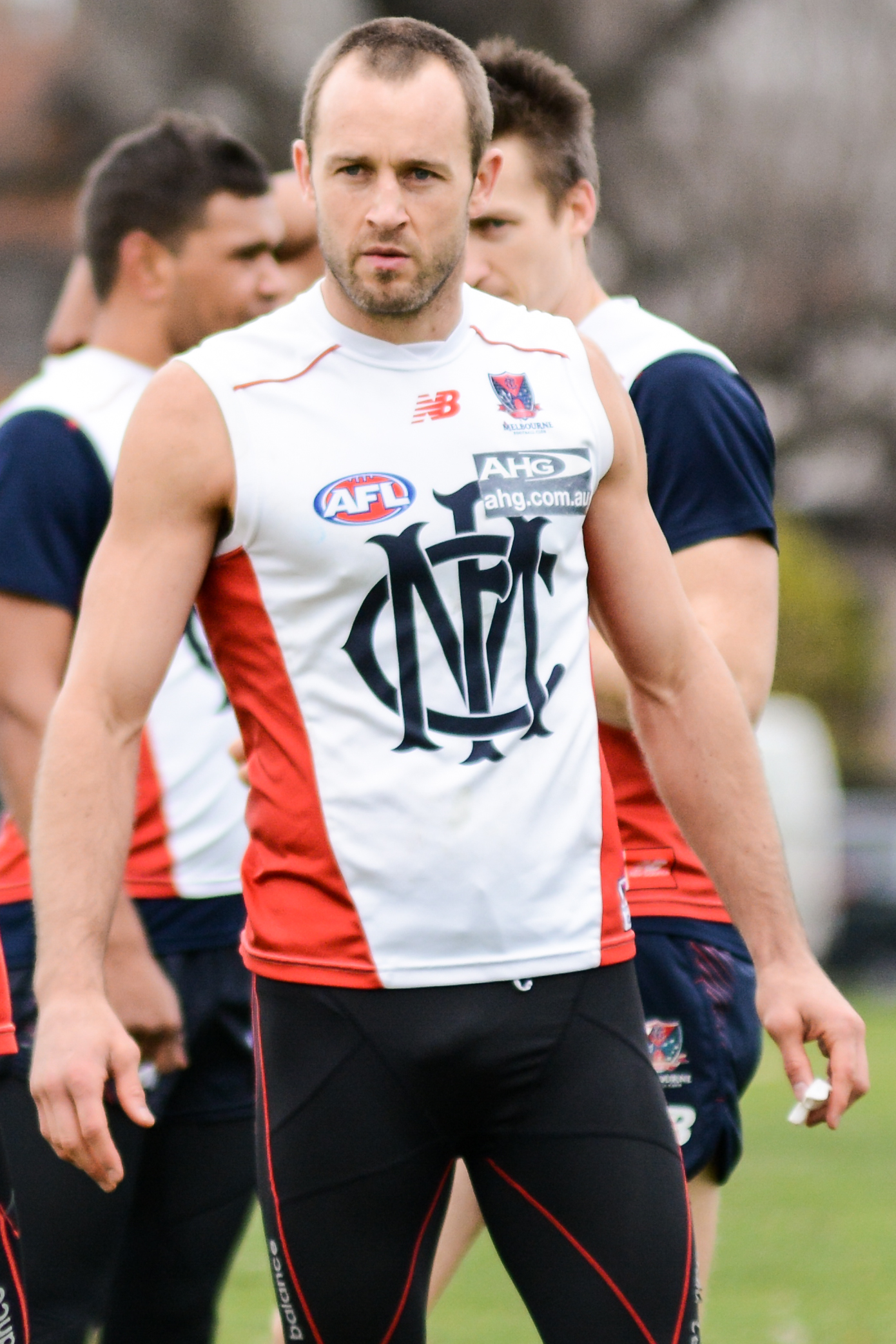 Daniel Cross at training during July 2015